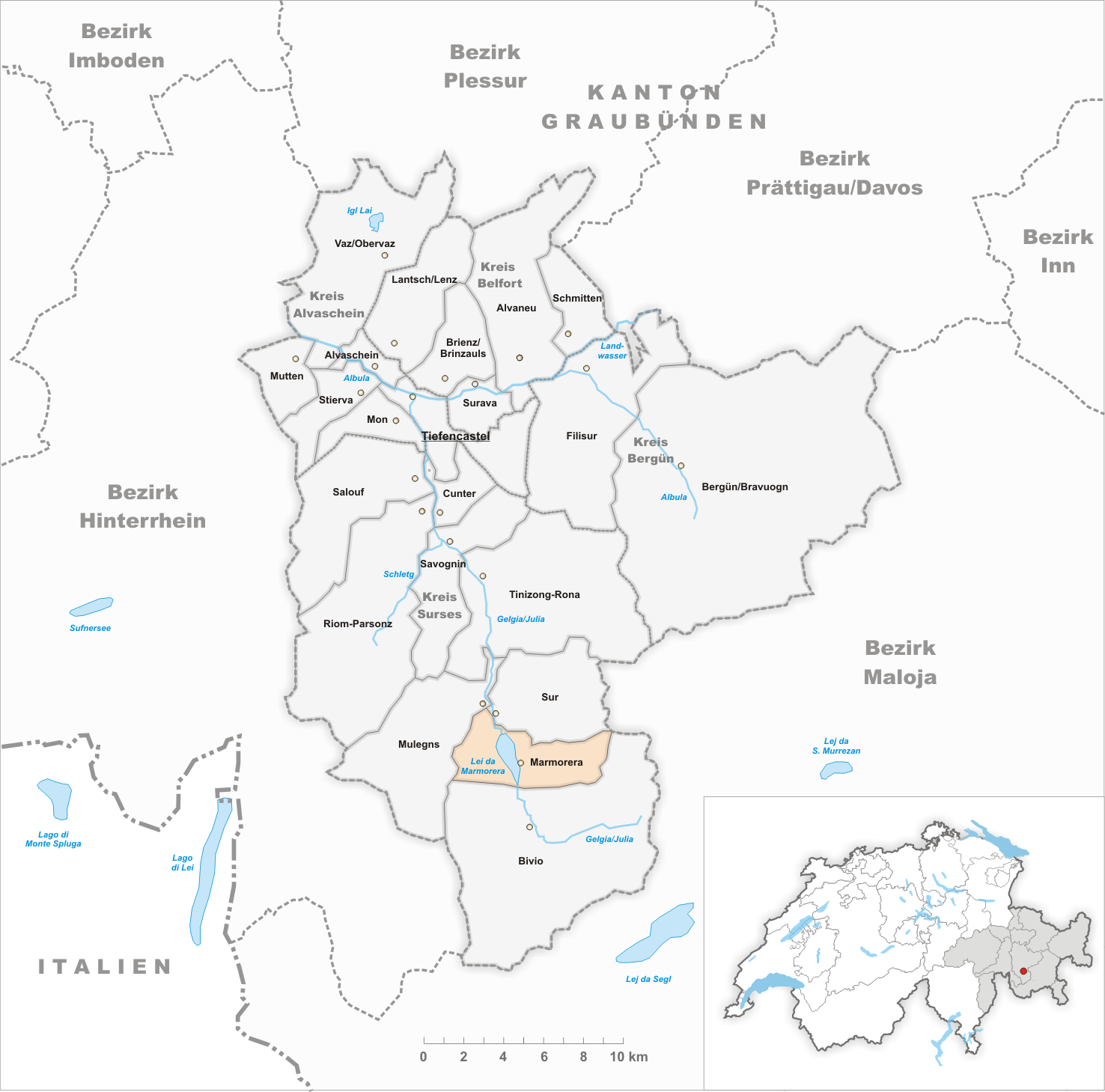 Municipality Marmorera